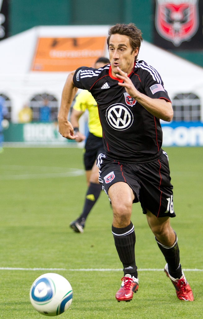 D.C. United forward, Josh Wolff dribbles the ball during a match against the Seattle Sounders FC on May 4, 2011 at RFK Stadium in Washington, D.C..